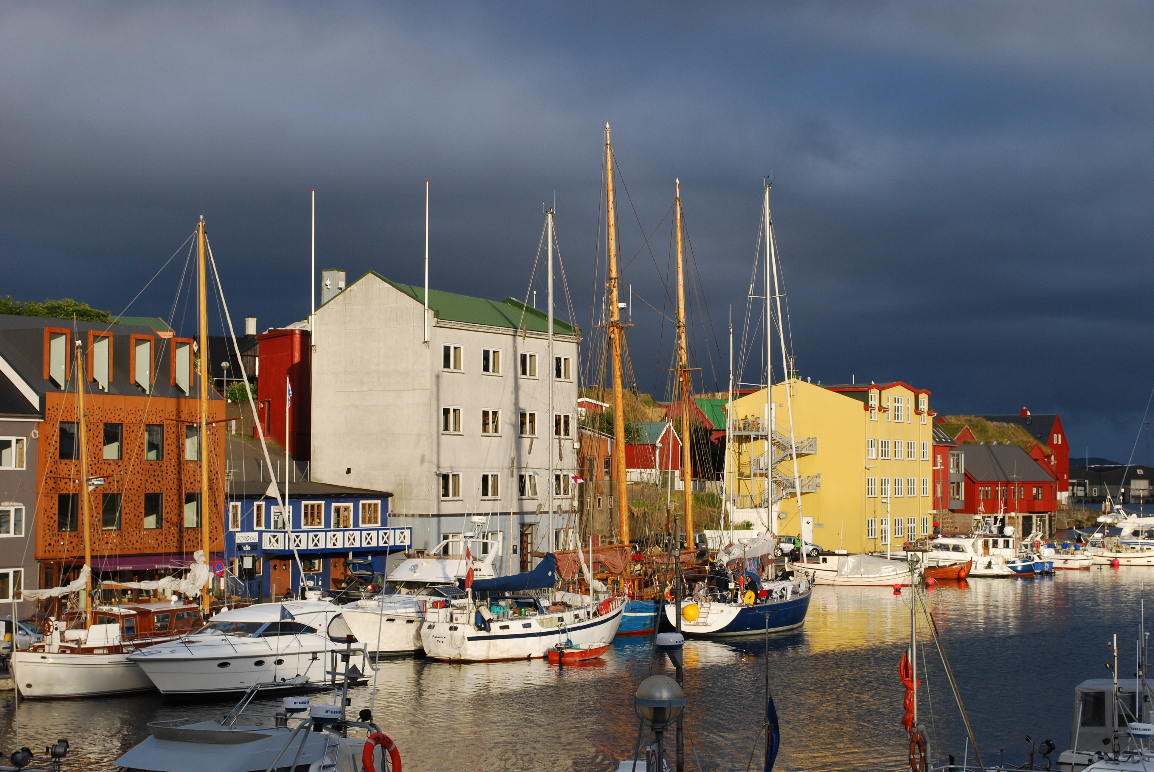 Vestaravág, Tórshavn, Faroe Islands